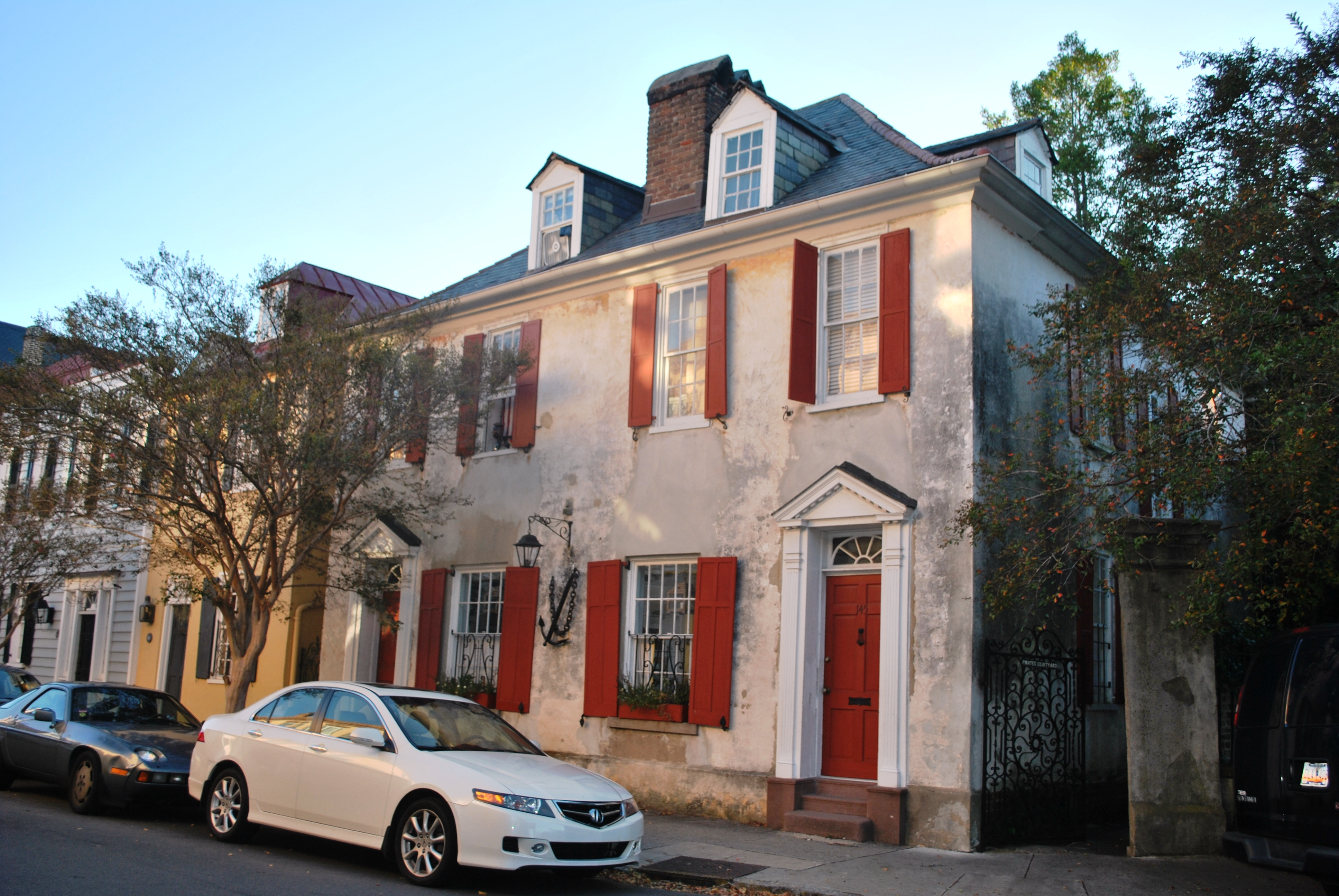 Image originally published in Queer Places: Retracing the Steps of LGBTQ people around the World Authored by Elisa Rolle